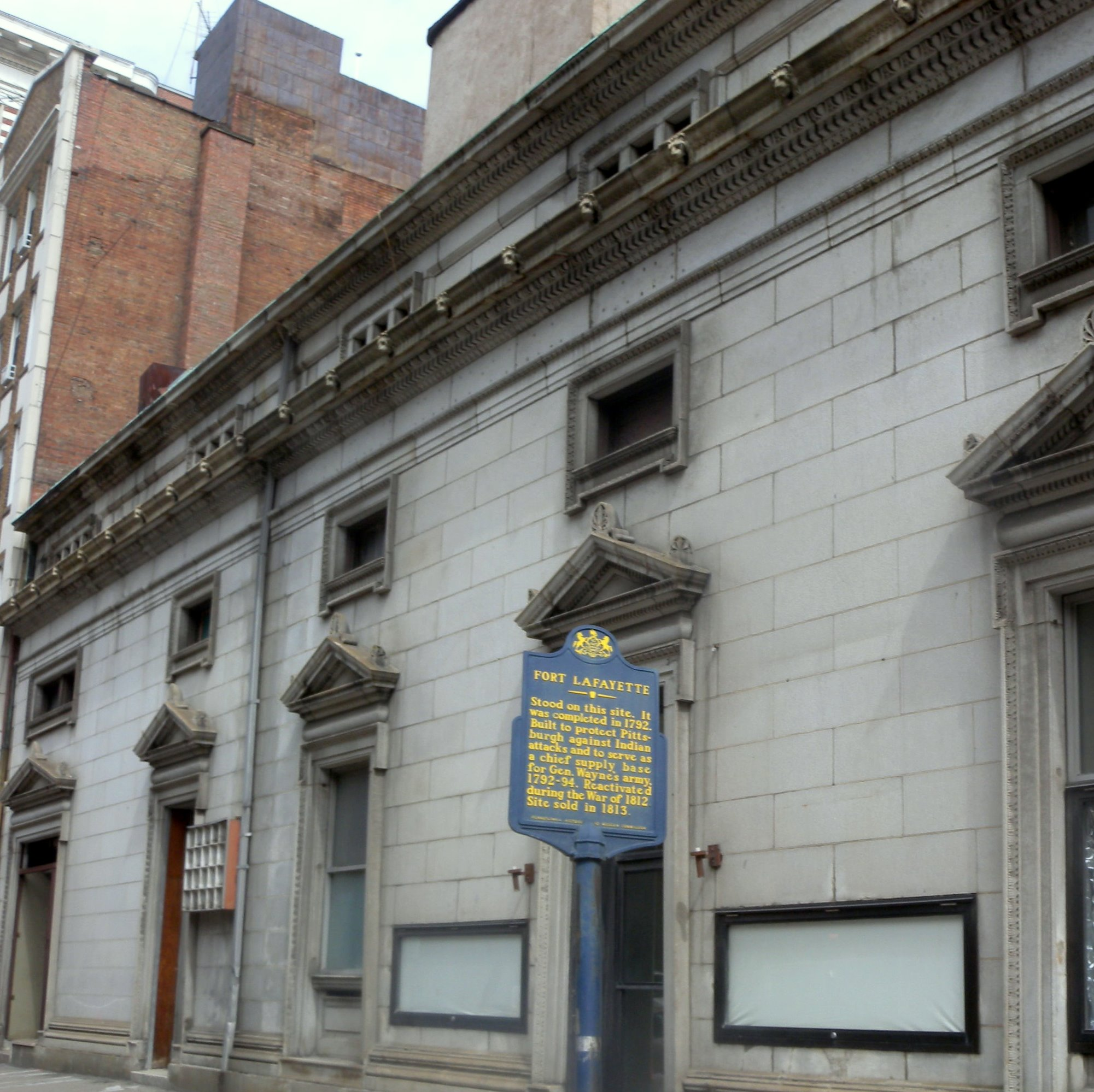 Looking north at marker for Fort Lafayette on a mostly sunny midday.